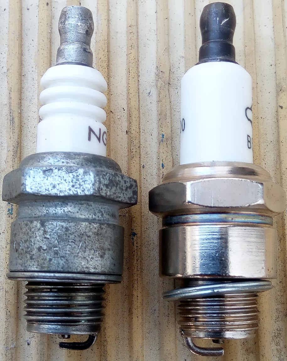 Two left-handed high-quality candles on the left, a low-quality on the right, on the left you can see the ceramic body with ridges that improves the insulating characteristics, to the right the metal body is obtained by two welded elements, while Left is a unique and deformed element after the ceramic body is introduced, the left sealing ring remains more easily in place.